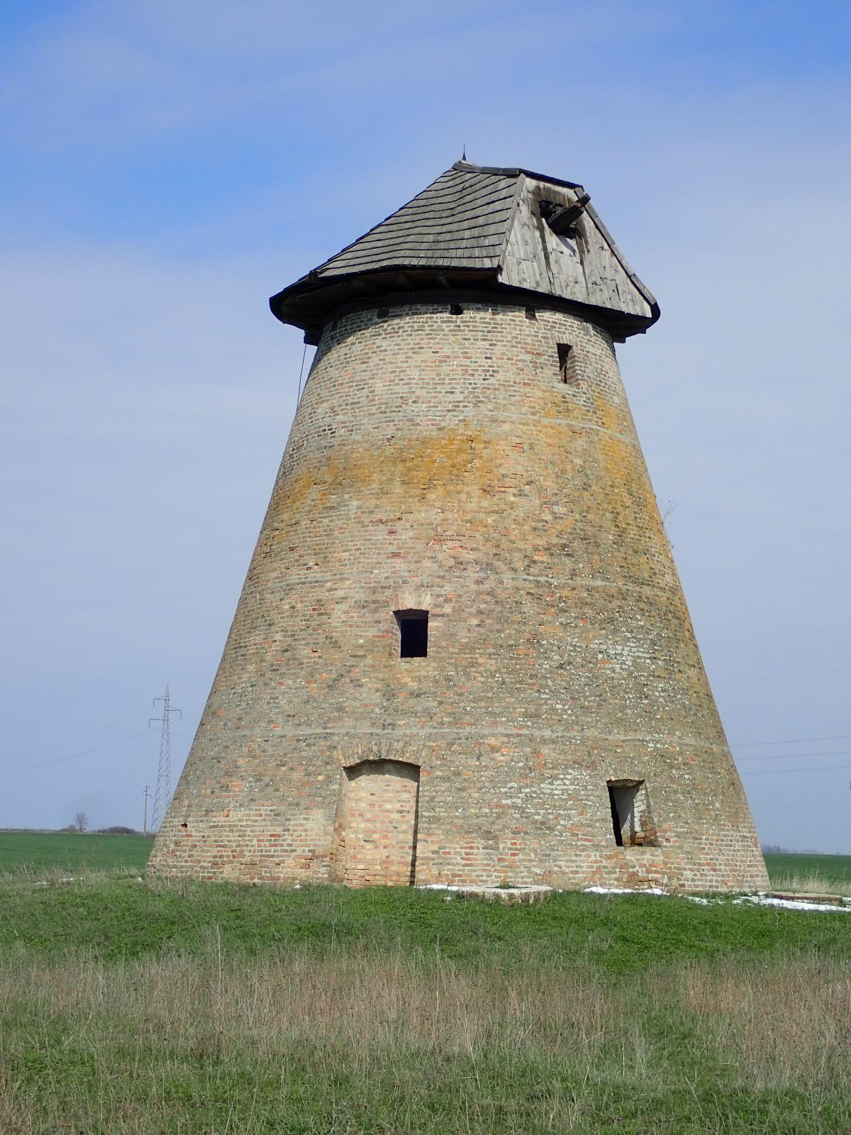 vetrenjaca melenci